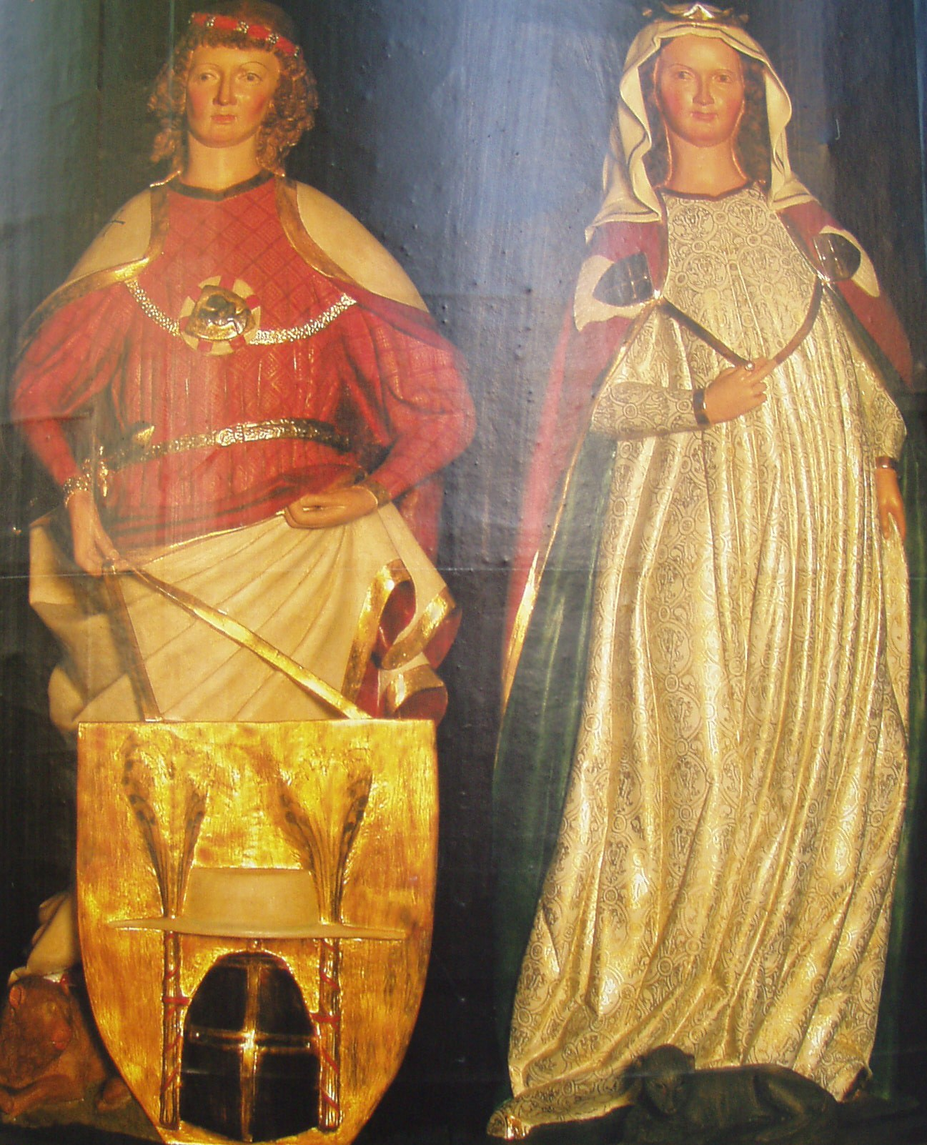 Picture of antique wooden statues of Otto & Beatrix von Botenlauben in Dommuseum Mainz